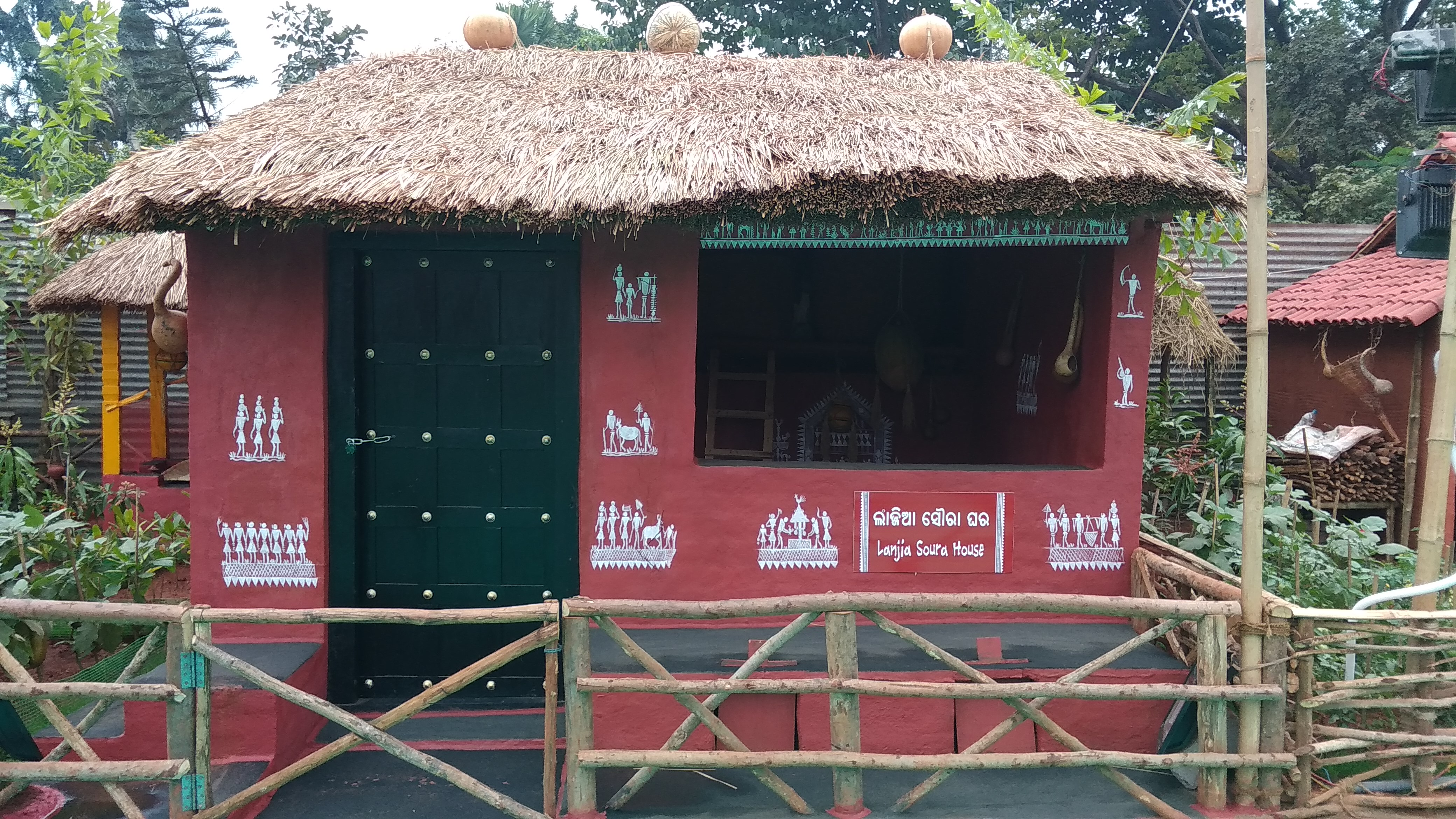 This photo has been taken in the country: India